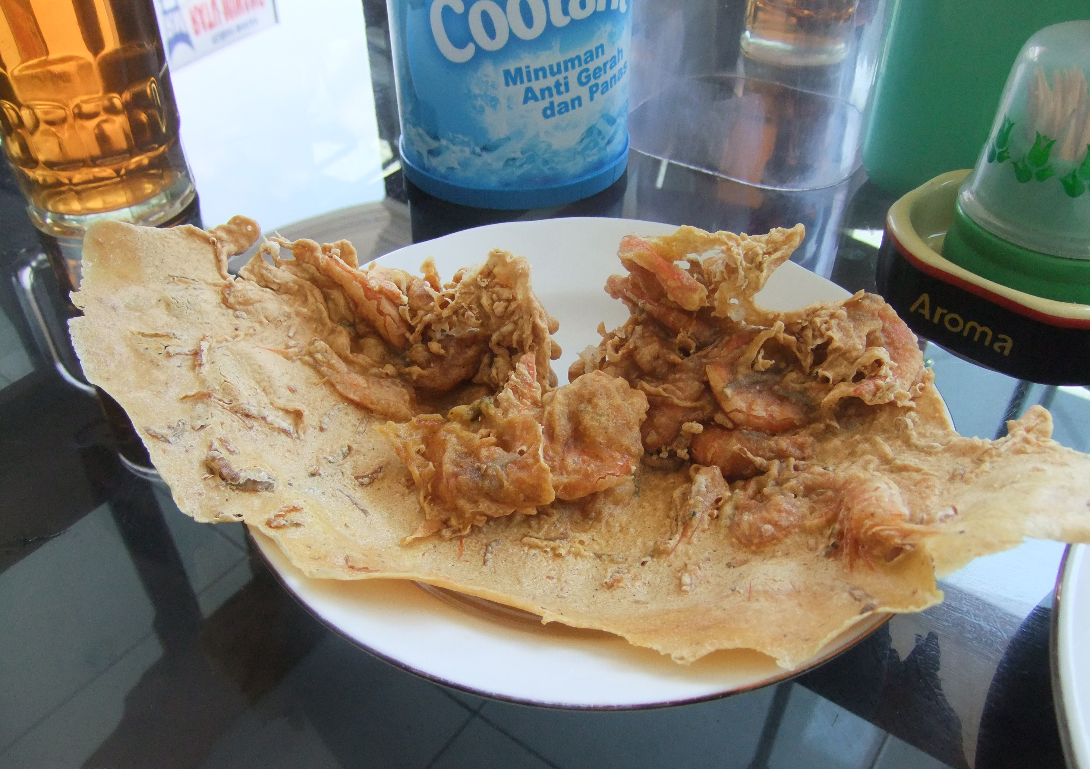 Prawn chips